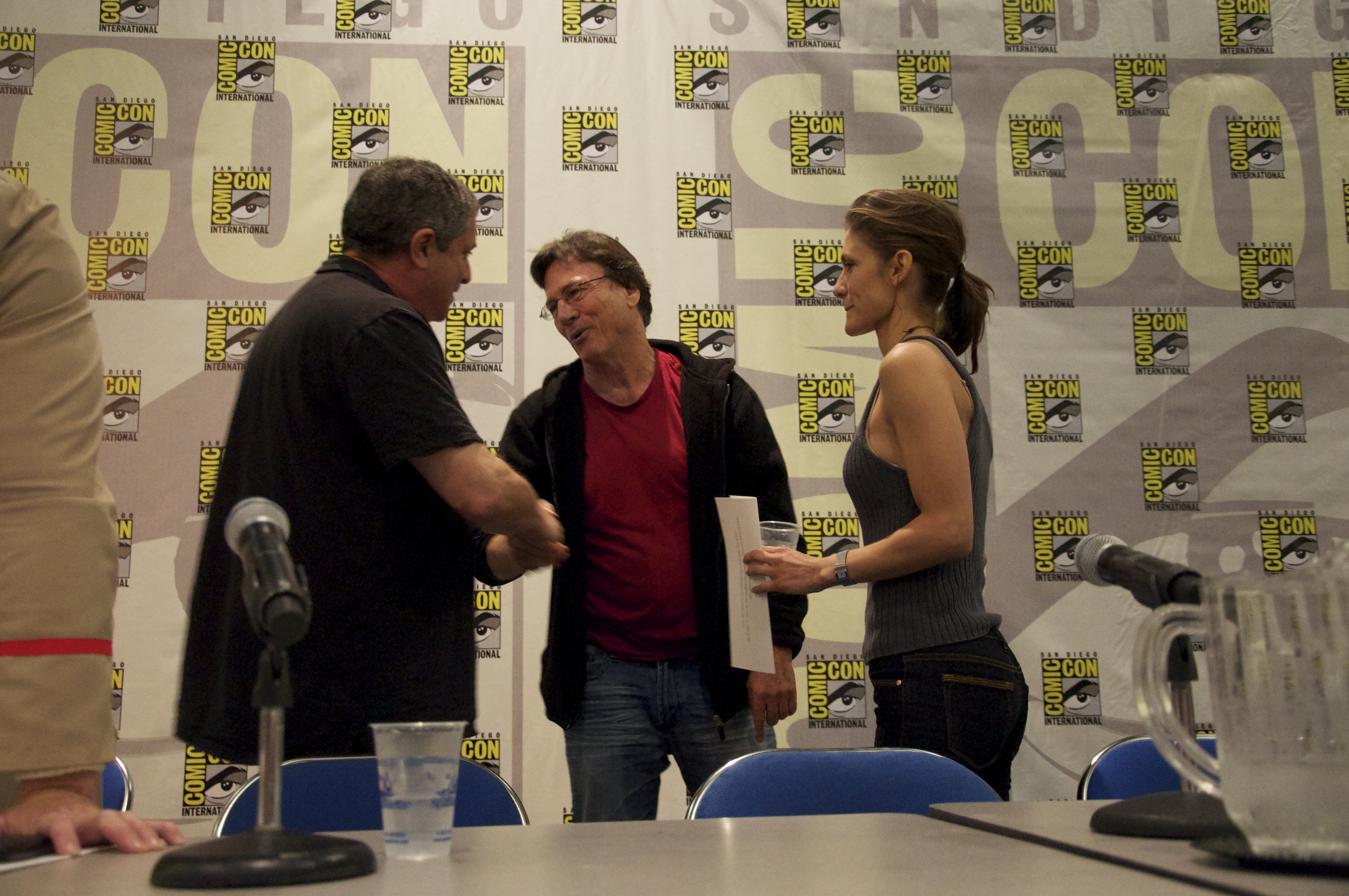 Director Michael Nankin, Richard Hatch, and Lili Bordán (Actress, Blood and Chrome)